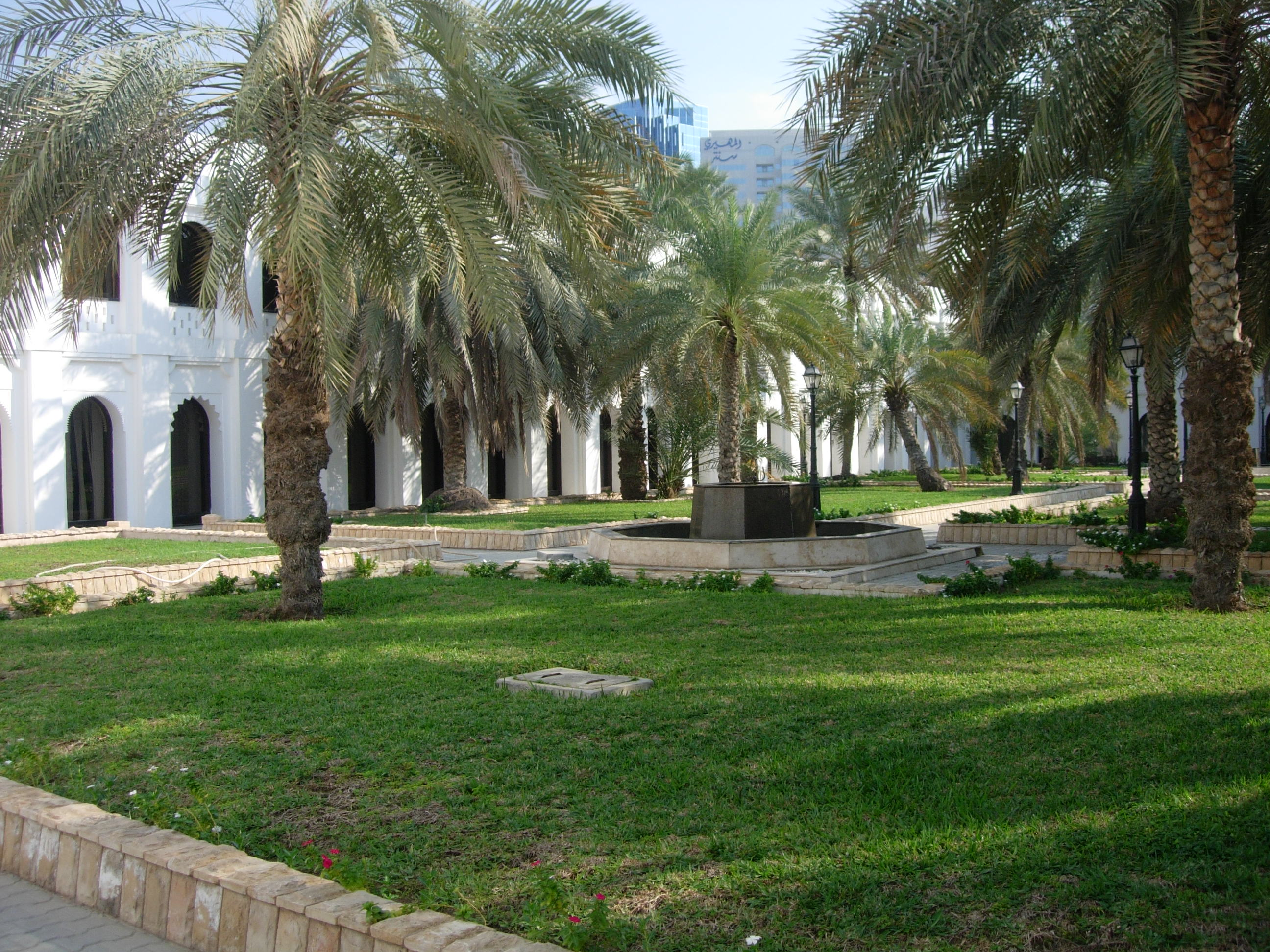 Photograpgh of the Sahn of Al Hosn Palace in Abu Dhabi